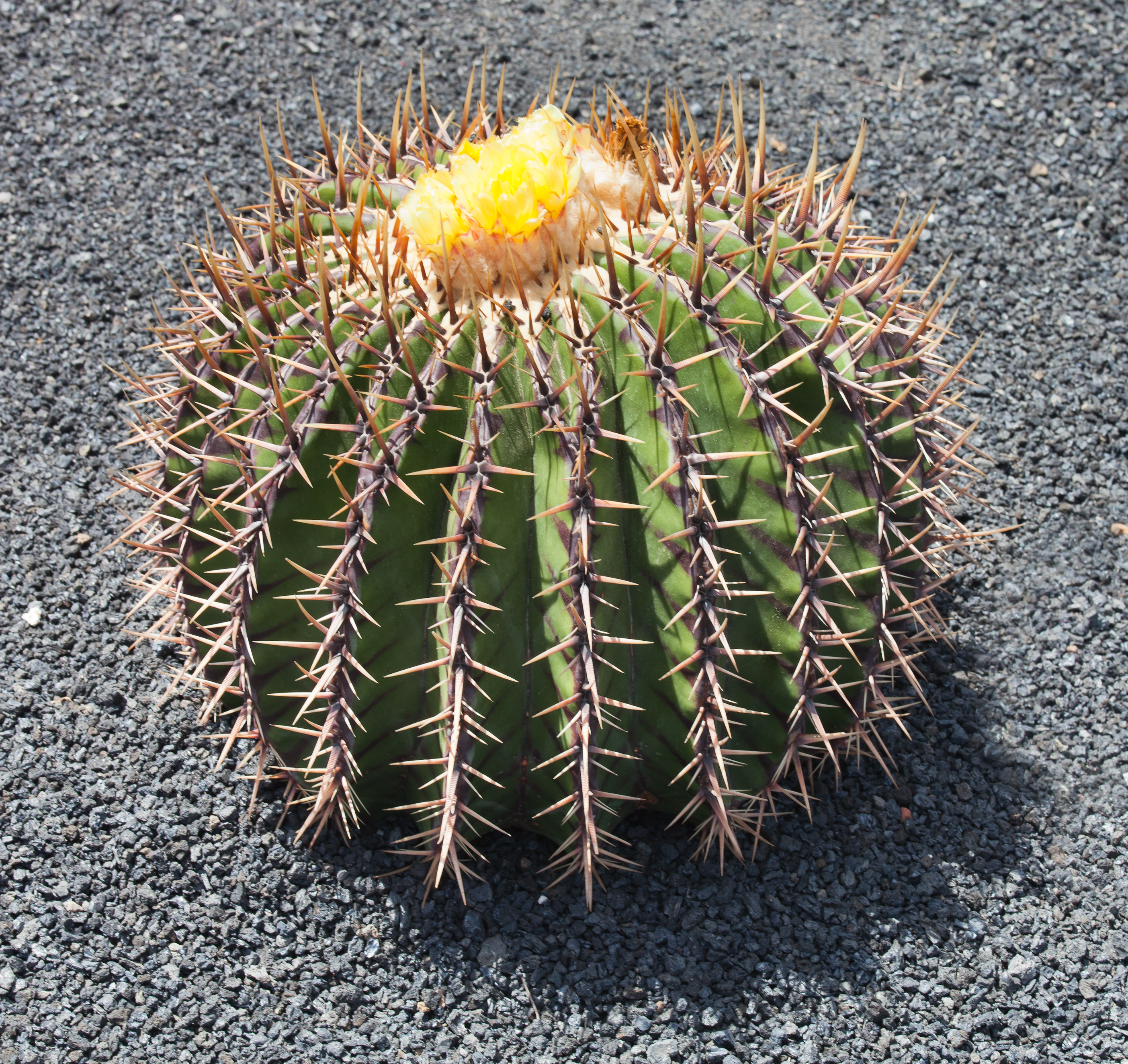 Echinocachus Platyacanthus. Jardín de Cactus - Lanzarote Determinada en por Juan Bibiloni, Angela Canet